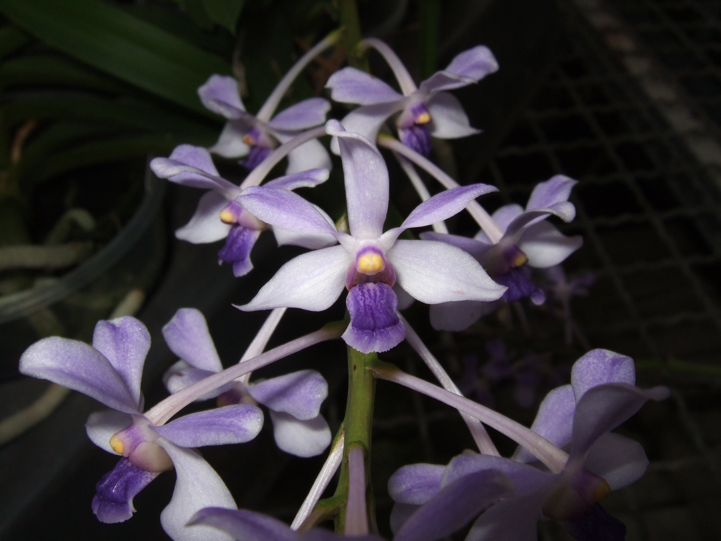 Vanda coerulescens inflorescens